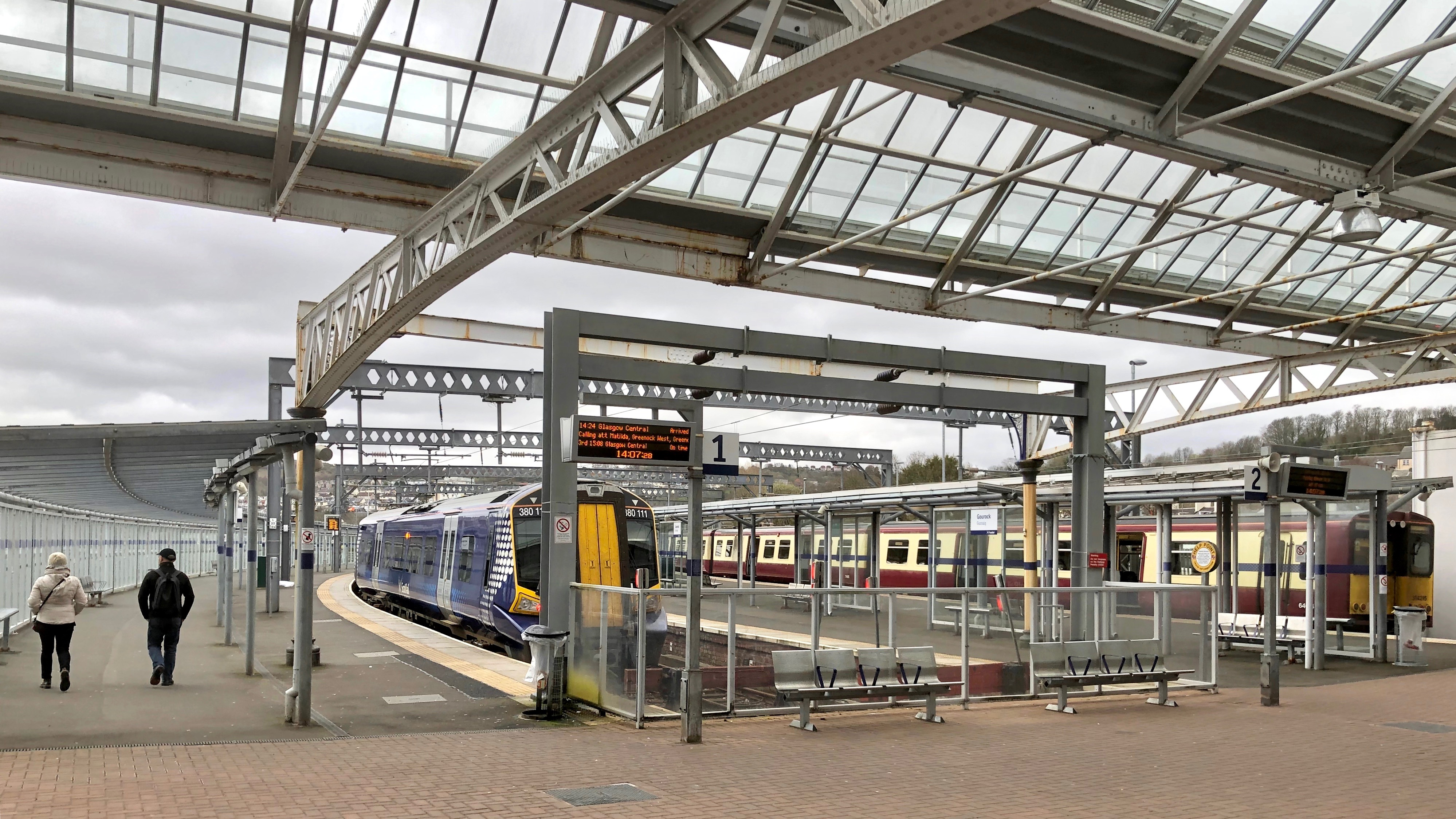 Gourock railway station terminus of the Inverclyde Line from Glasgow. On the left, pedestrians walk towards Gourock Ferry Terminal beside Platform 1, with Abellio ScotRail Class 380 train 380111 having recently arrived at the platform. Platform 2 is empty, and on Platform 3 Class 314 train 314216 in SPT colours is about to depart for Glasgow.